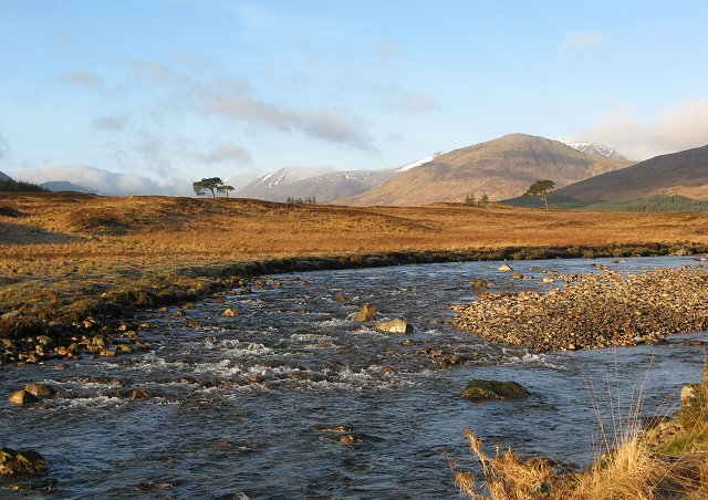 Abhainn Shira The Abhainn Shira is a big river draining the south of Blackmount Forest. View upstream beyond Clashgour.